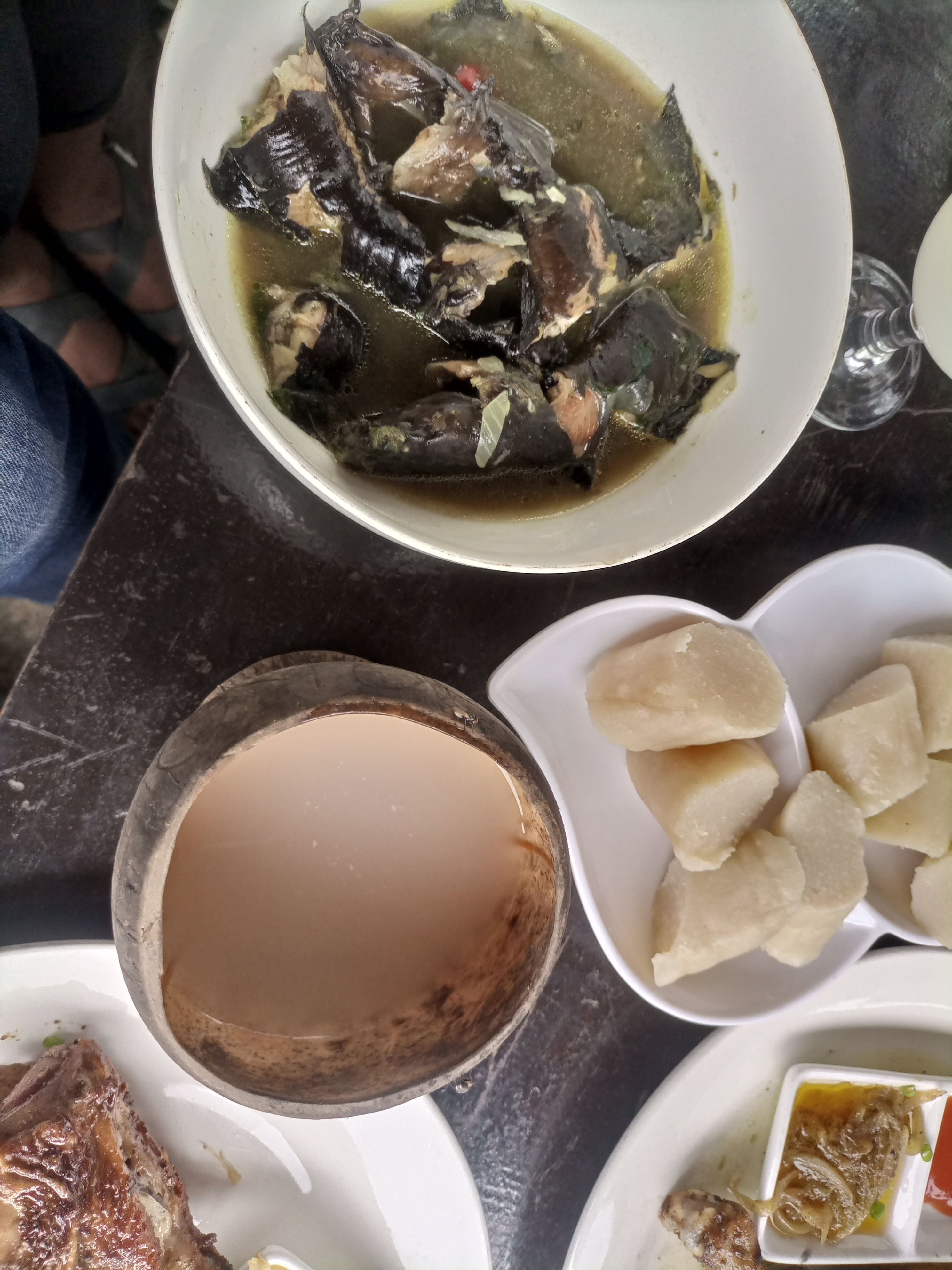 Maboké wrapped up.